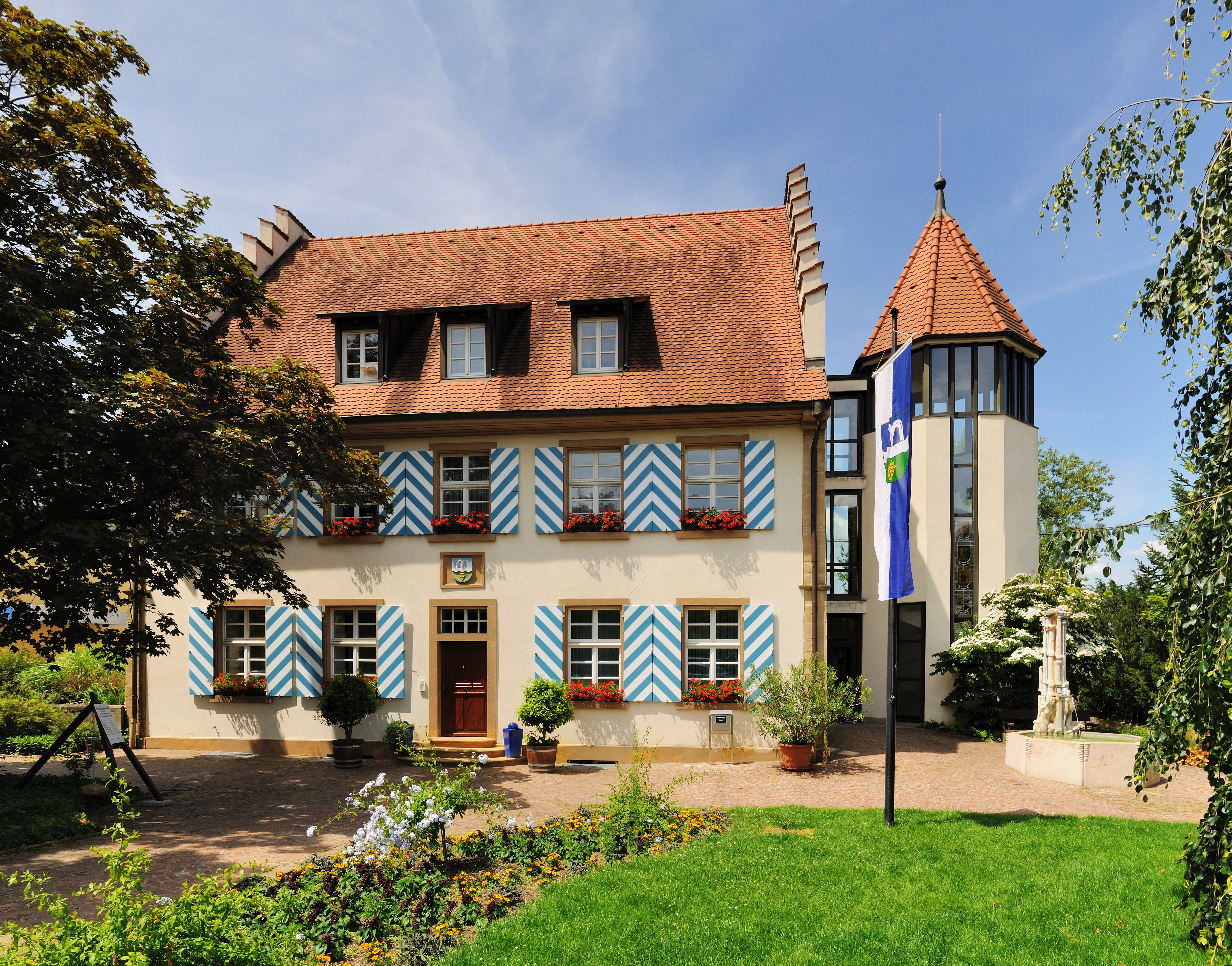 Bad Bellingen: City Hall